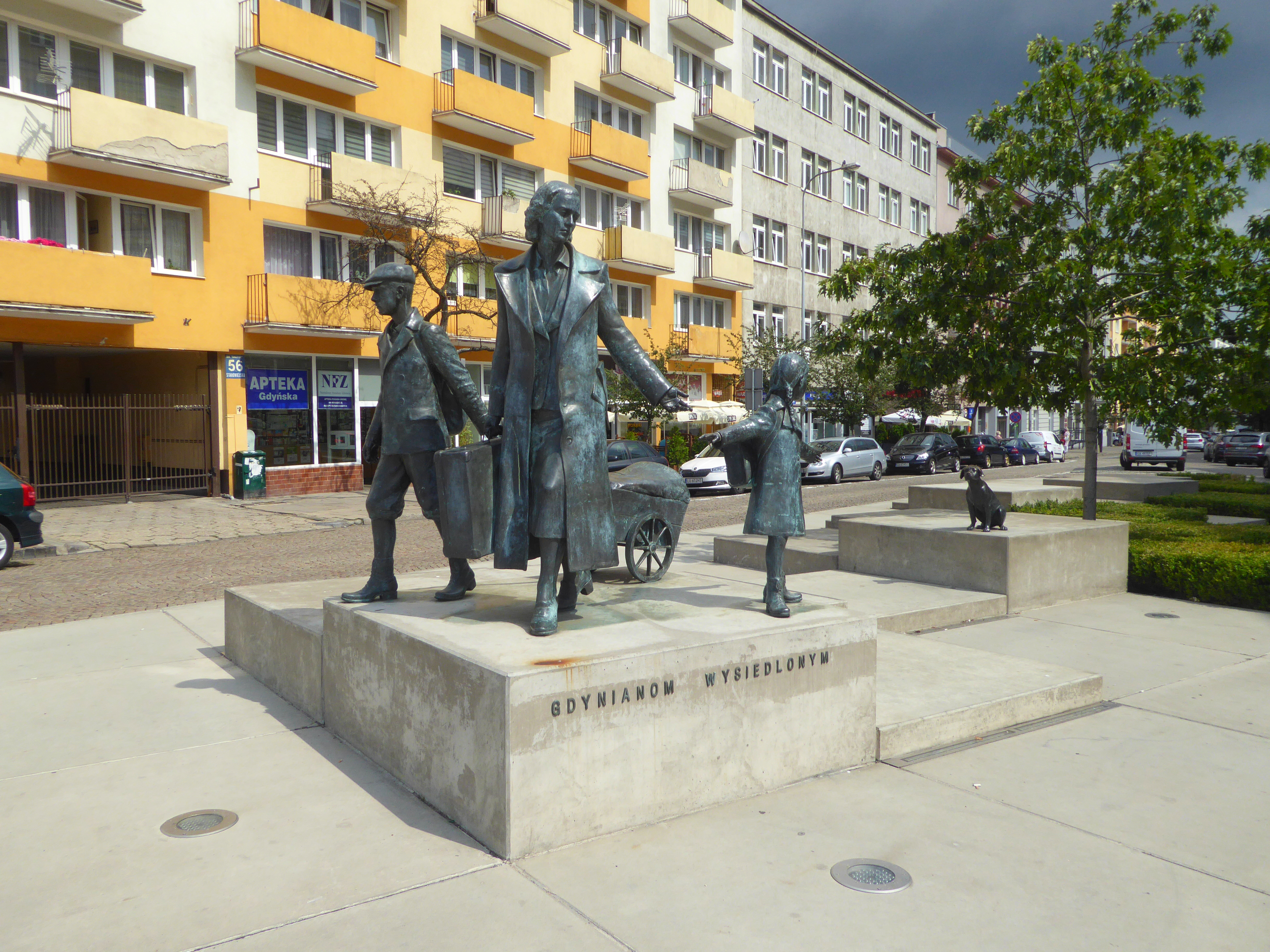 The Monument Gdynianom Wysiedlonym in Gdynia.